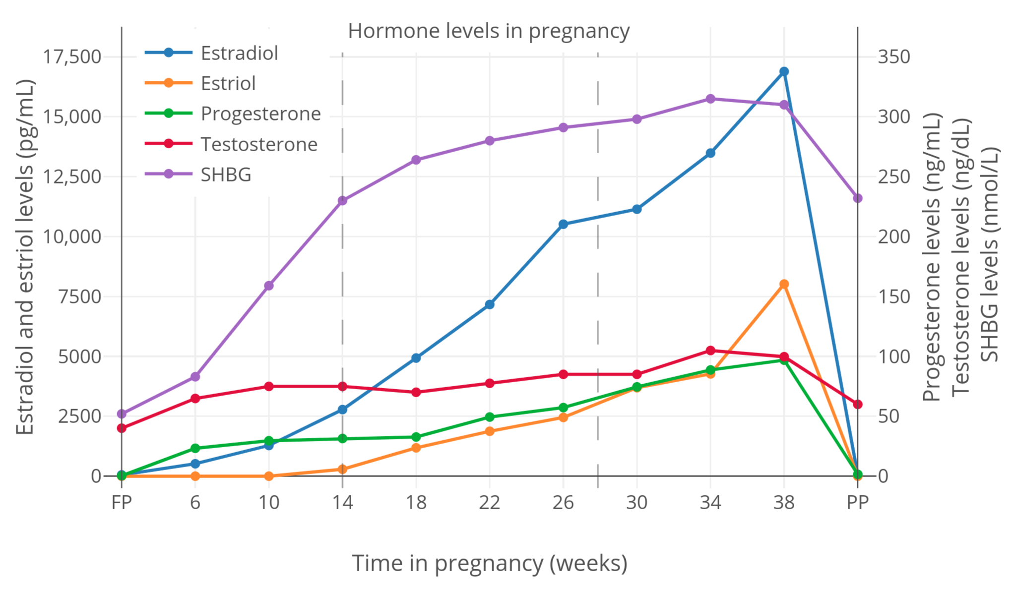 Levels of estradiol and estriol (pg/mL), progesterone (ng/mL), testosterone (ng/dL), and sex hormone-binding globulin (SHBG) (nmol/L) during pregnancy in women. FP = follicular phase controls, PP = 4 days postpartum. Determinations were done using radioimmunoassay (RIA). Source of the values: (February 1994). "Longitudinal study of maternal plasma bioavailable testosterone and androstanediol glucuronide levels during pregnancy". Clin. Endocrinol. (Oxf) 40 (2): 263–7. PMID 8137527.